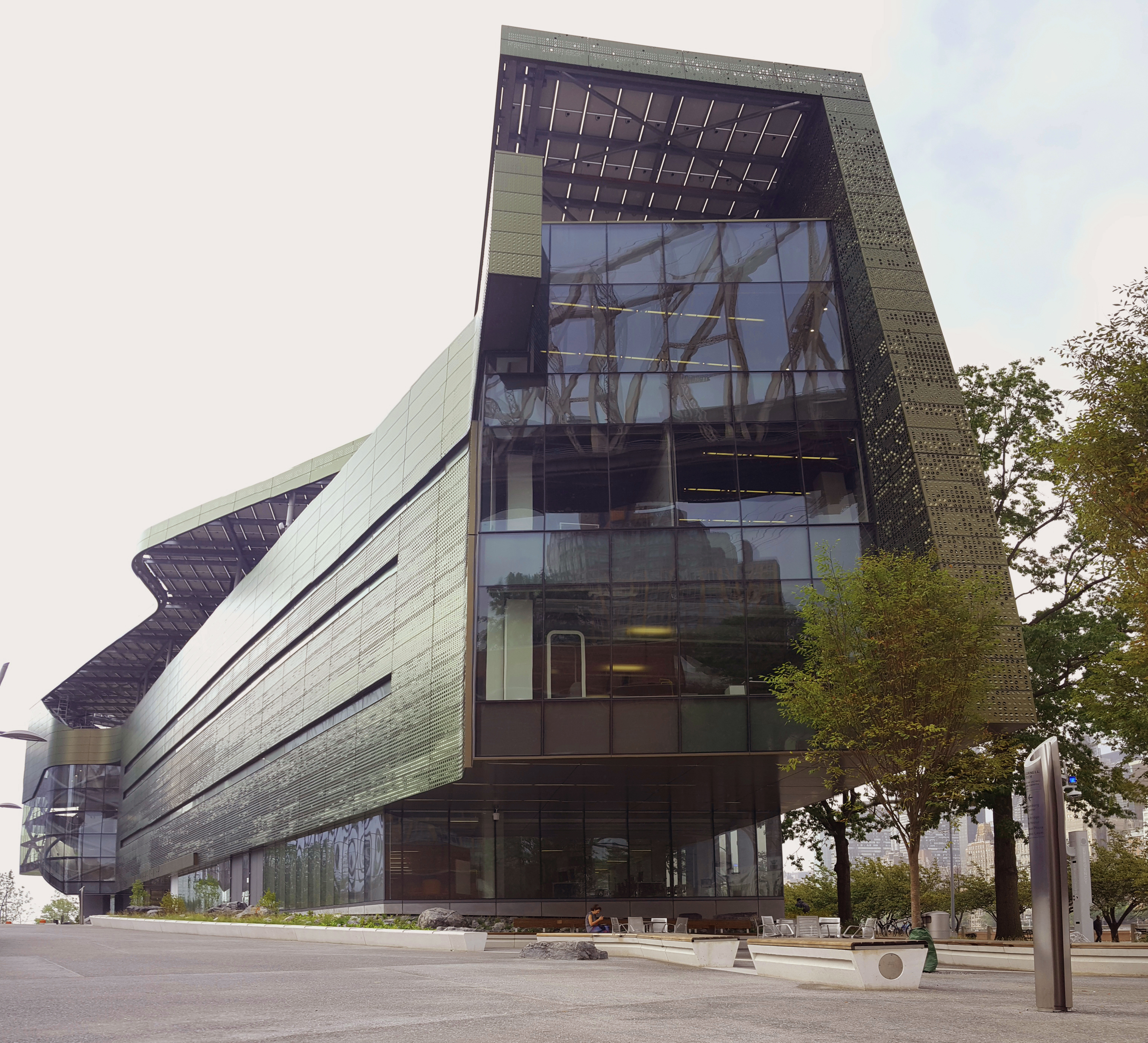 Site: The Bridge at Cornell Tech